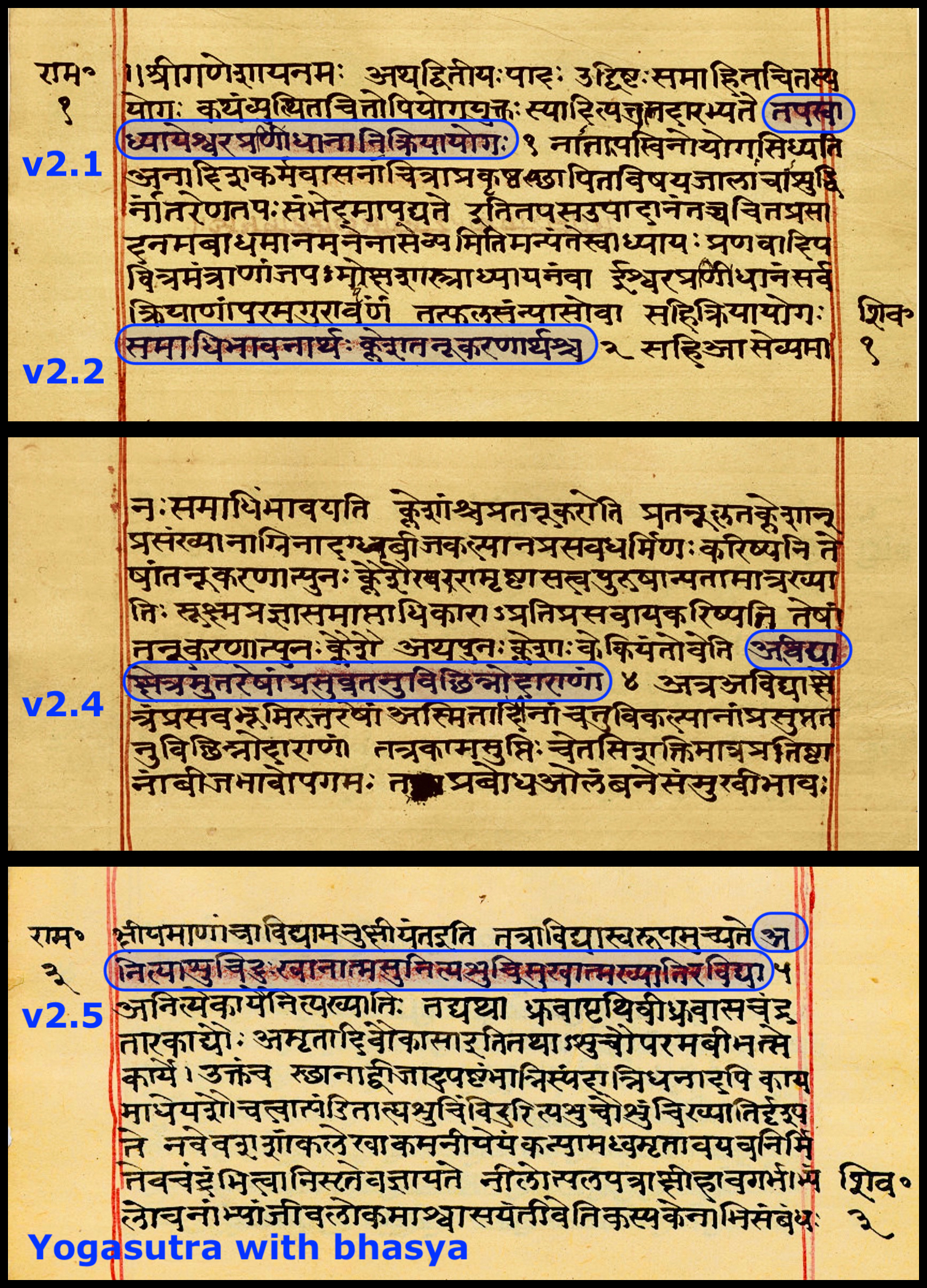 The Yogasutra is an ancient Hindu text on Yoga philosophy. As a sutra, it is terse and needs interpretation and commentary called bhasya in the Hindu tradition. The Yogasutra is a widely followed and translated text since at least about the late 1st millennium CE. The above photo is of a random, non-sequential sample page collection of a historic Yogasutra manuscript. The sutra are daubed with an orange-saffron powder, and it is embedded inside the bhasya. Above only the sutras 2.1, 2.2, 2.4 and 2.5 are shown (randomly selected for illustration purposes). On the border is written "Ram" or "Shiva", which sometimes marks the Hindu monastery tradition or Hindu temple the text was copied, studied or preserved in (in some cases, it represents the devotee's guru tradition). The manuscript may also highlight the colophon or words with orange powder, corrections would normally be covered over with yellow or another color followed by notes on the margins. Personal commentary of a follower or another scholar are sometimes present in smaller script on the margins of a page. The above 18th-century manuscript is archived and preserved at the University of Pennsylvania, which holds the largest number of South Asian manuscripts in North America. Some of its collection has been digitized and released in an ongoing effort as of 2018. The photo above is of a 2D artwork of a text that is over 2,000 years old, from a manuscript that was produced before 1920. Therefore Wikimedia Commons PD-Art licensing guidelines apply. Any rights I have as a photographer is herewith donated to wikimedia commons under CC 4.0 license.